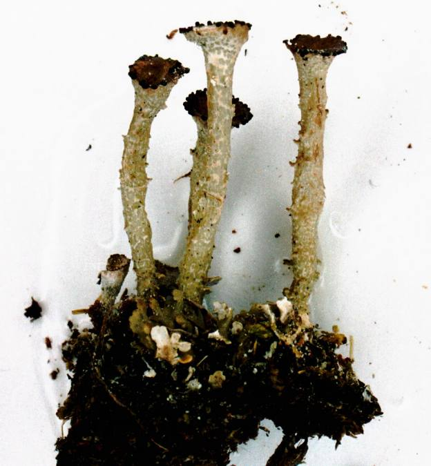 Cladonia gracilis (L.) Willd., 1787 Photograph of herbarium specimens showing cup-bearing podetia with a smooth, unbroken cortex, and no soredia. These specimens were growing on soil at the Milbridge Cemetery, in Milbridge, Washington County, Maine, USA (Lat. 44o31.353' N, Long. 67o53.787' W). Collected by E.C. Uebel (No. U-117, 12 Jun 2001), identified by Dr. David H.S. Richardson.